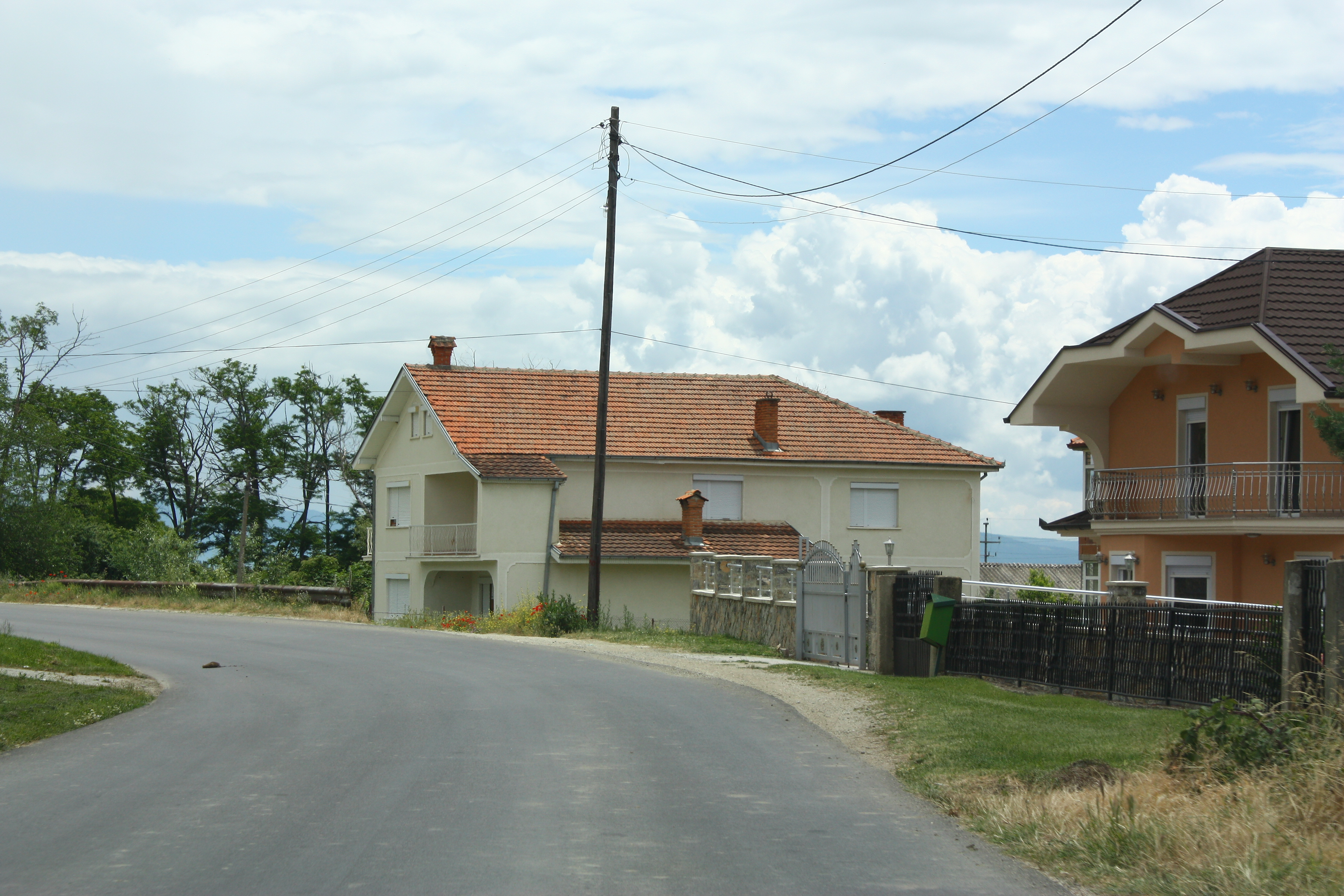 Grnčari, Macedonia